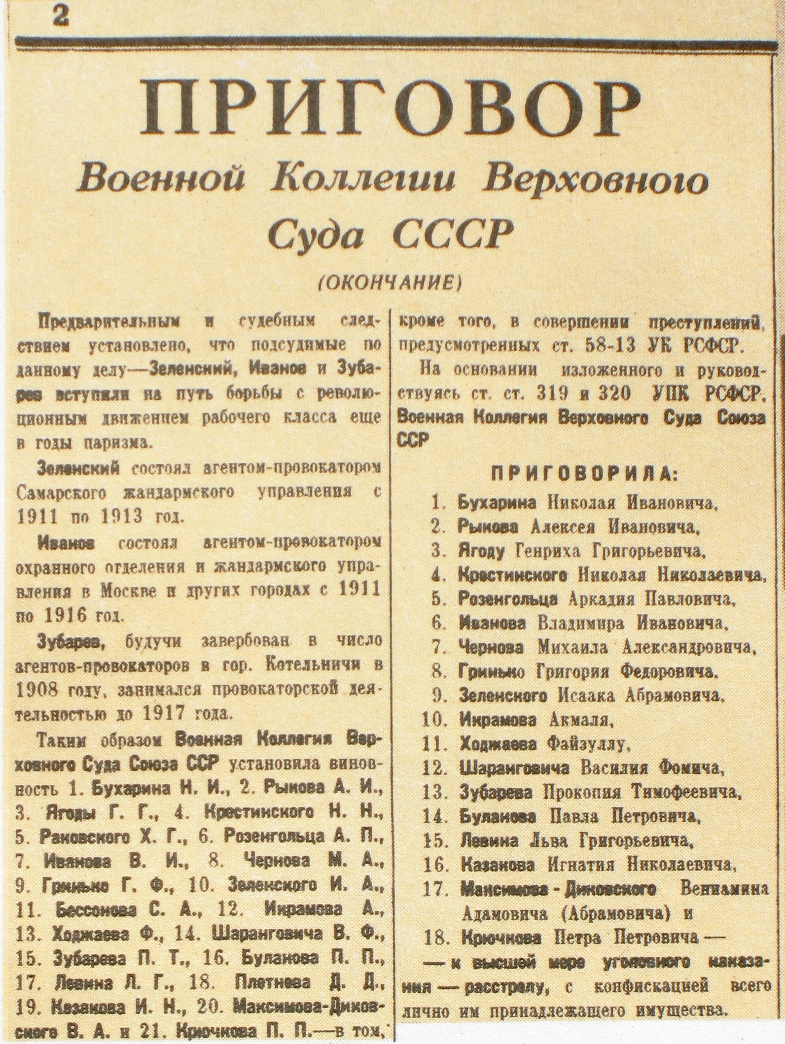 The verdict in the case of Bukharin-Rykov-Yagoda (The third Moscow Trial) on March 13, 1938. Information note of the newspaper "Pravda". The original (2nd page).